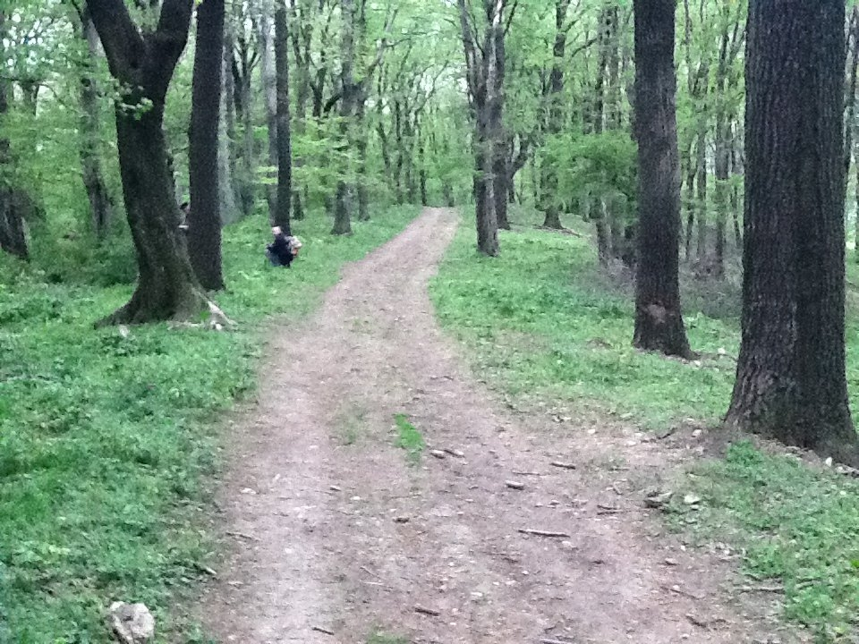 Road down the Zengő mountain, southern Hungary, Hosszúhetény village, near the Bárányles cross (or Bocz cross as the locals call it).